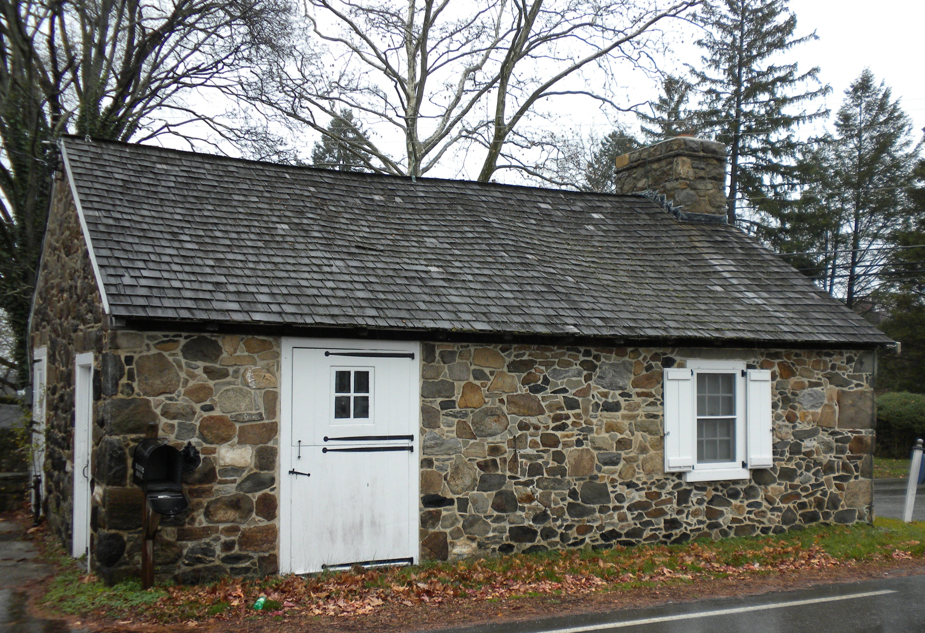 Small building in White Horse, Chester County, PA. Entire "town" is a historical district in the NRHP.